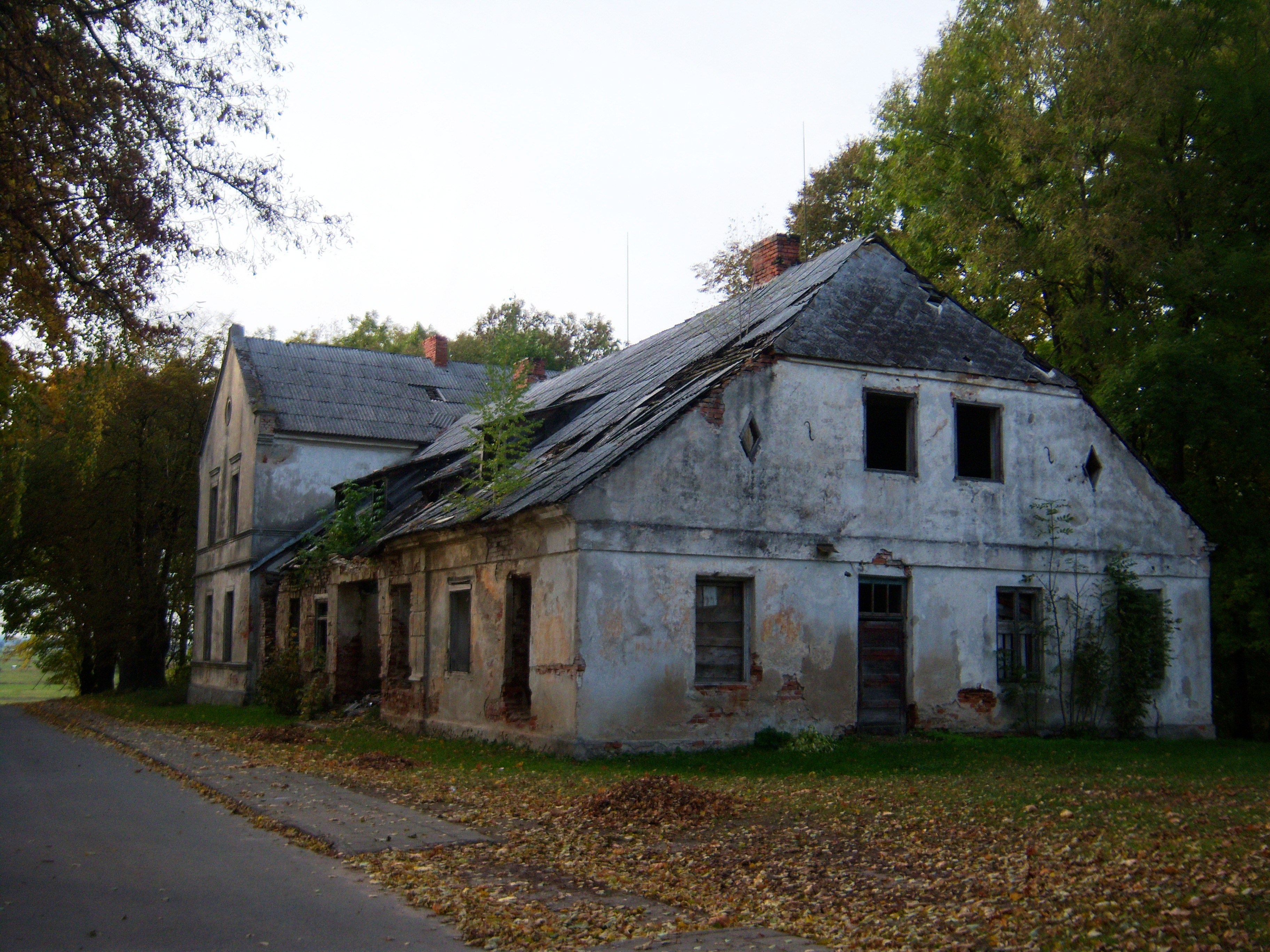 Former manor in Bartninkai, Vilkaviškis District, Lithuania